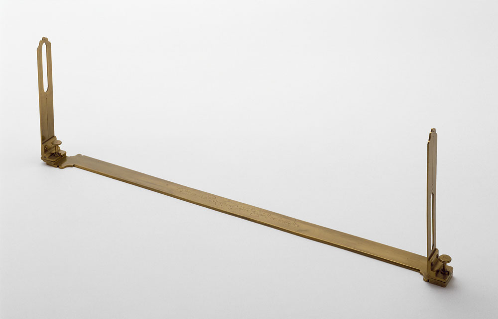 AuthorFrancesco MorelliDescription